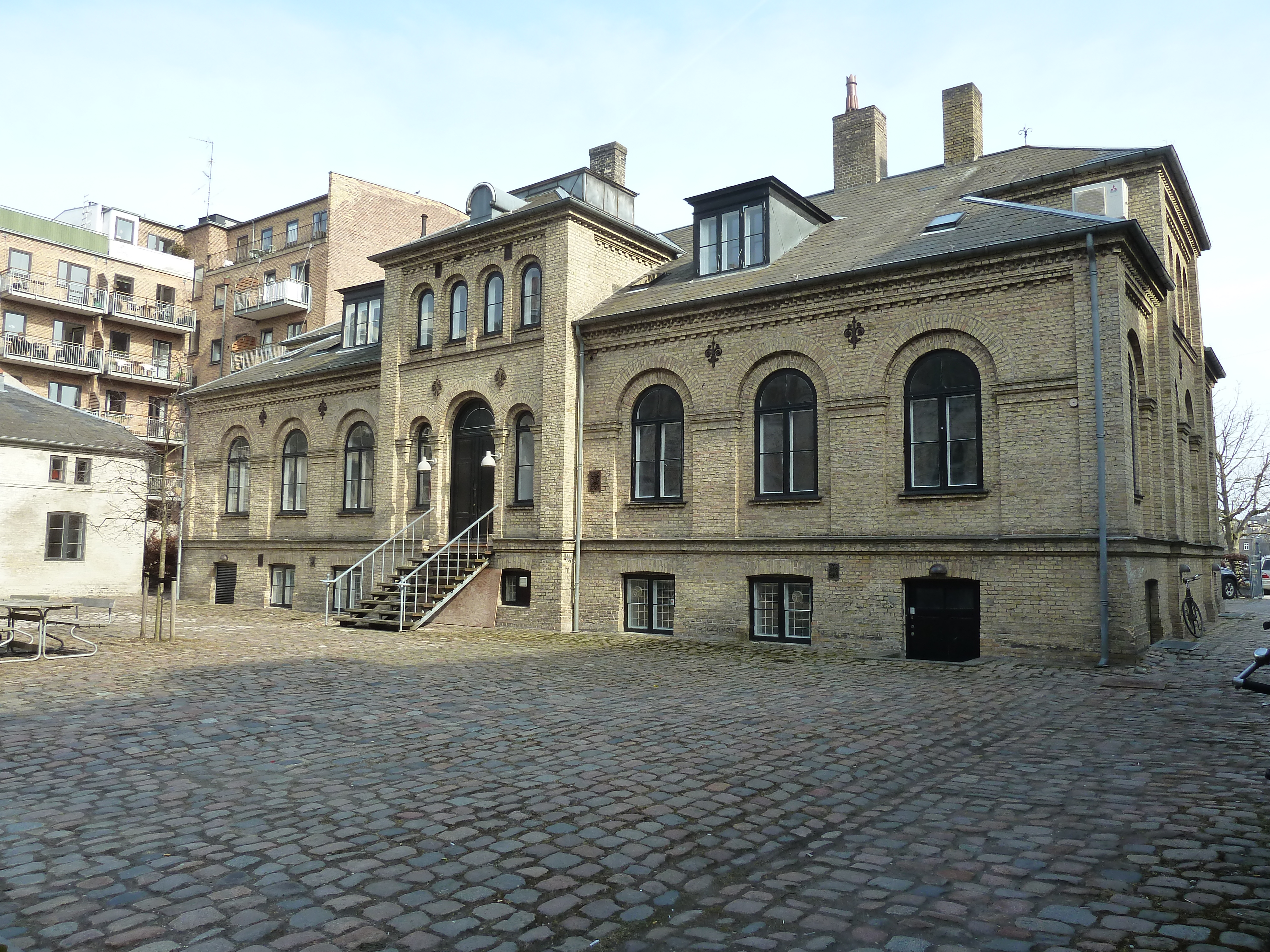 Sortedam Dossering 55, (seen from the yard) in Copenhagen, Denmark